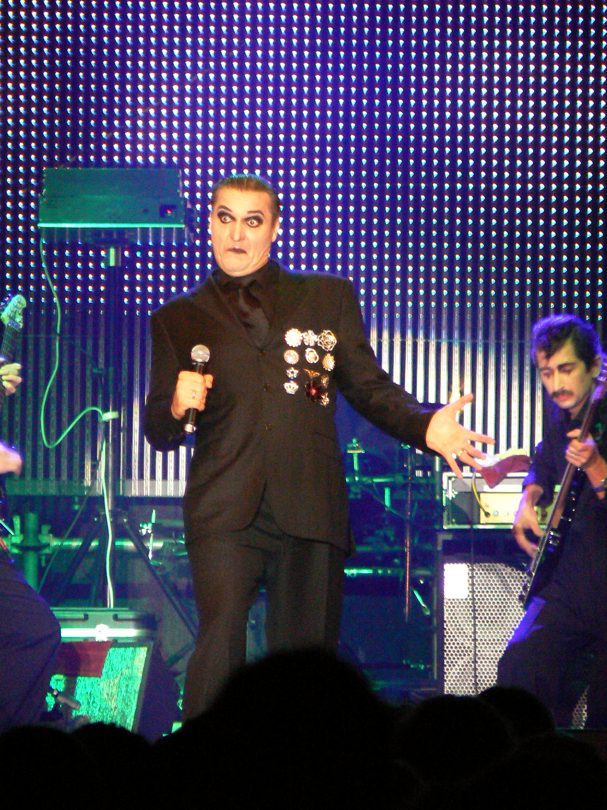 Lithuanian rock band Antis at festival "Capital Days" in Vilnius.